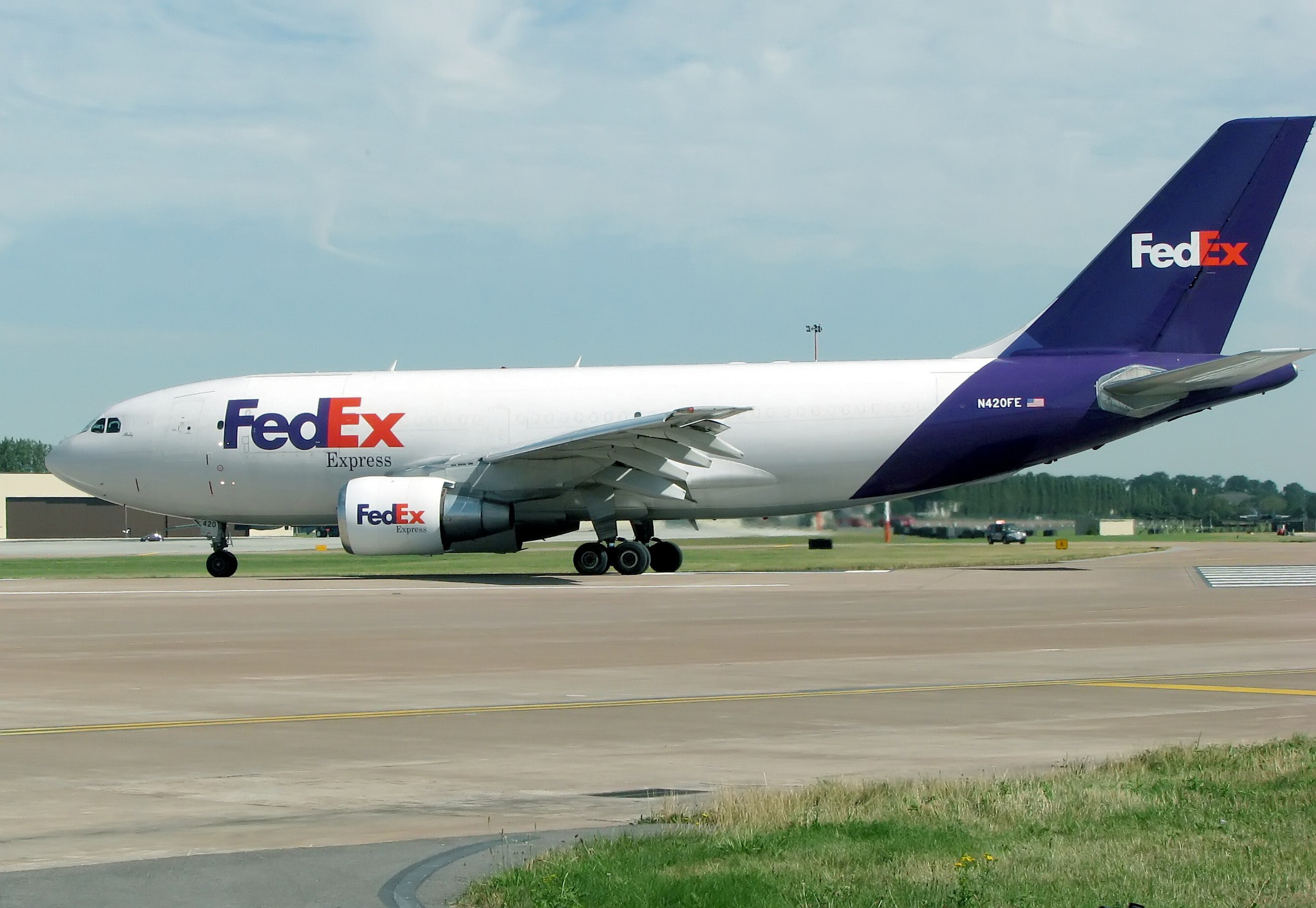 Federal Express Airbus A310-200 (N420FE) taxis for takeoff at the Royal International Air Tattoo, Fairford, Gloucestershire, England. Photographed by Adrian Pingstone on July 17th 2006 and released to the public domain.